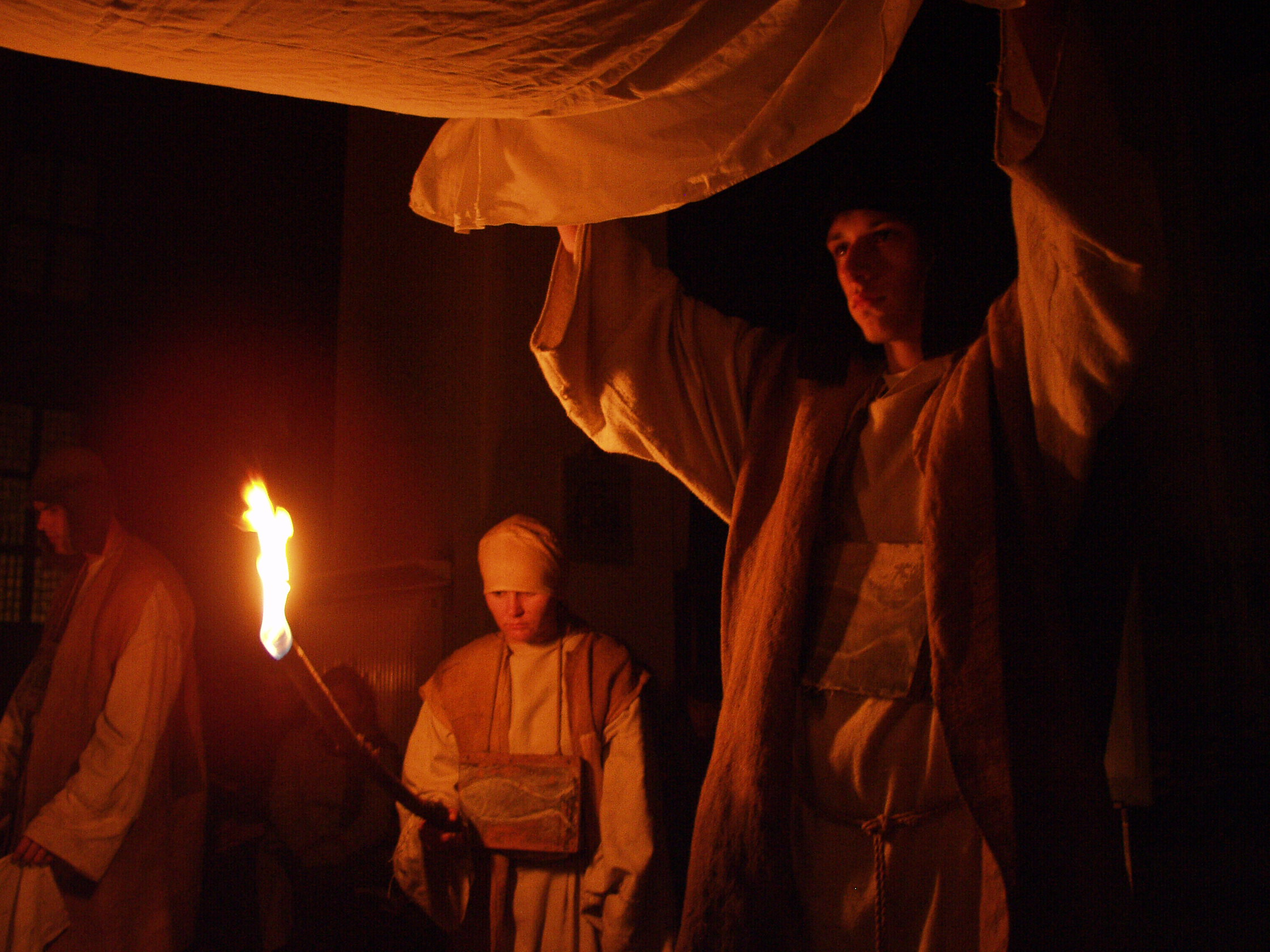 fot. Jacek Chmielewski